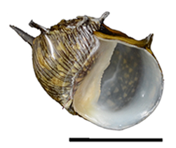 Photo of an apertural view of a shell of Clithon corona. Scale bar is 10 mm.